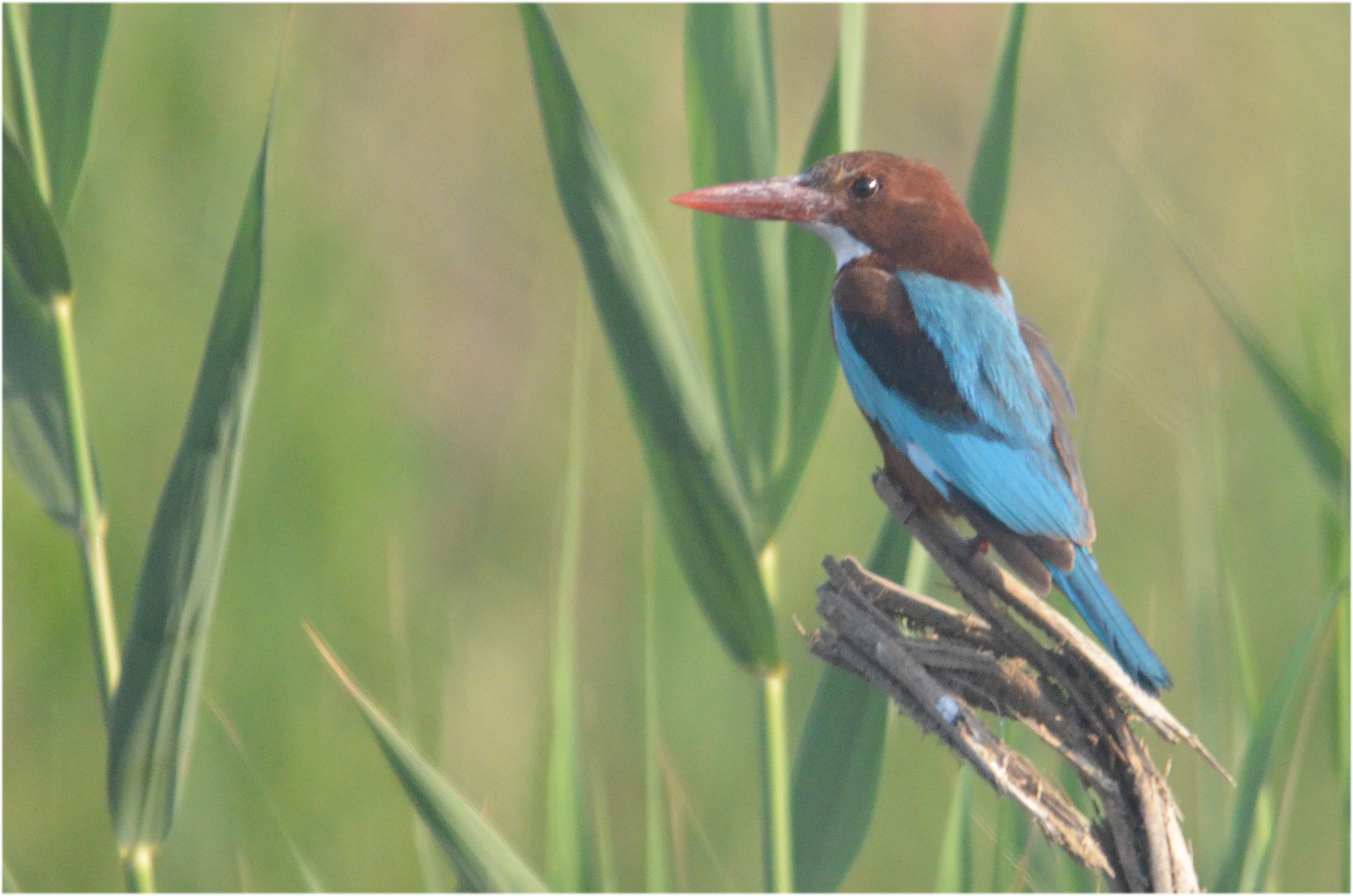 White-throated Kingfisher